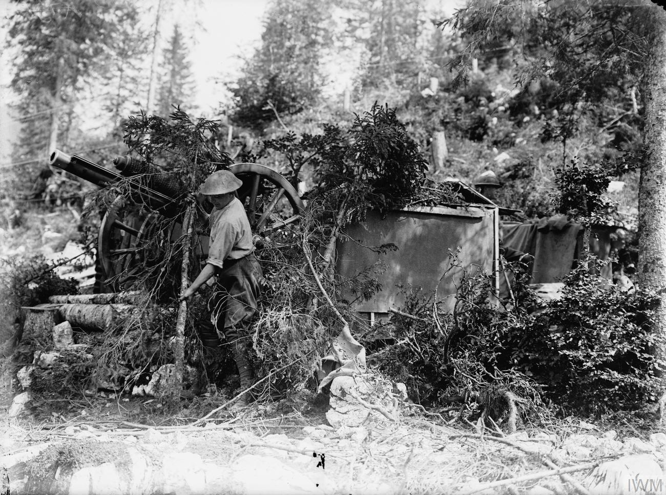 IWM caption : "THE BRITISH ARMY ON THE ITALIAN FRONT, 1917-1918. 18-pounder gun of the Royal Field Artillery in a camouflaged position in the mountains".